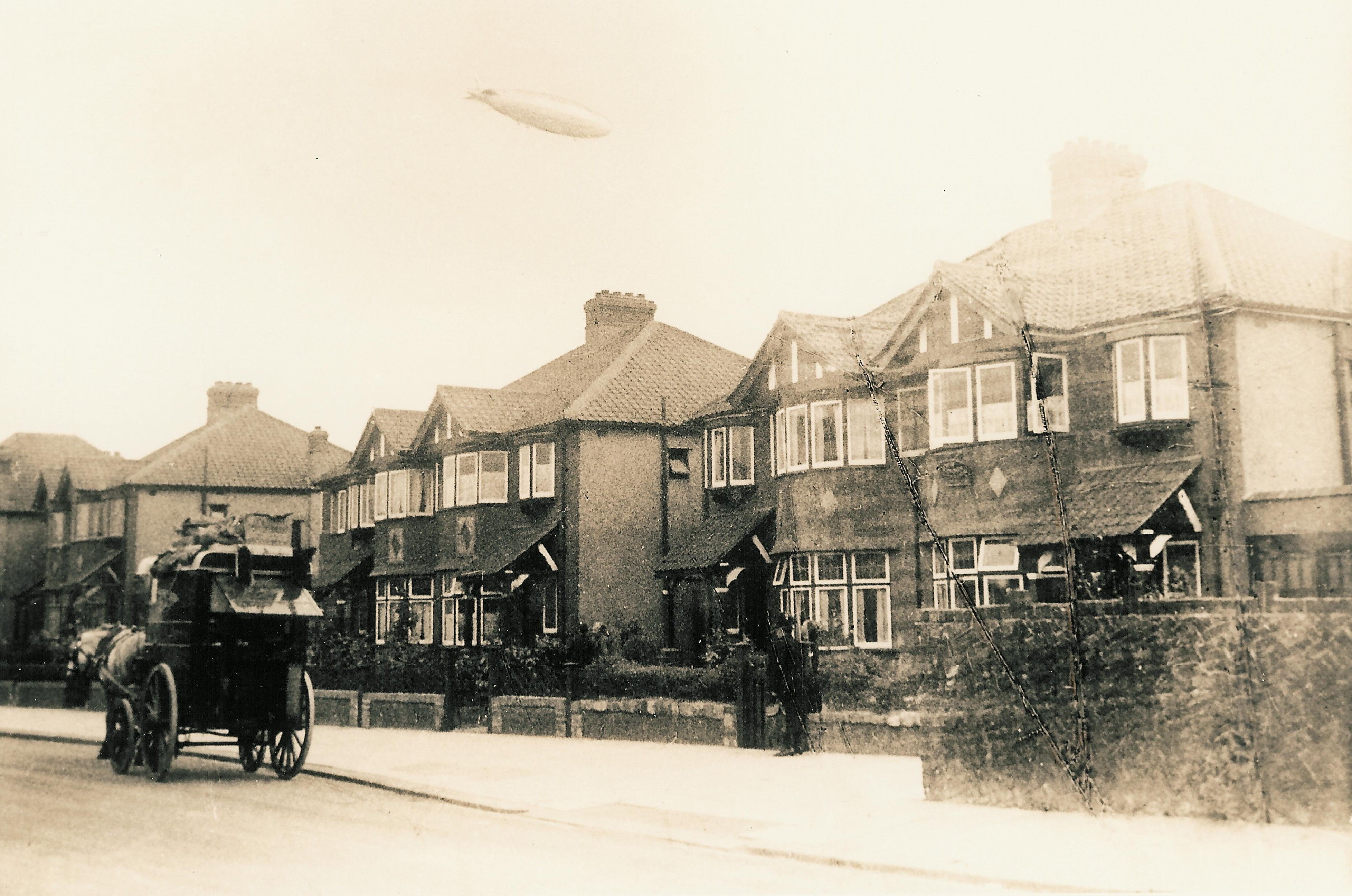 Burnley Road, London. C. 1091 comment: looks like the british rigid airship R101